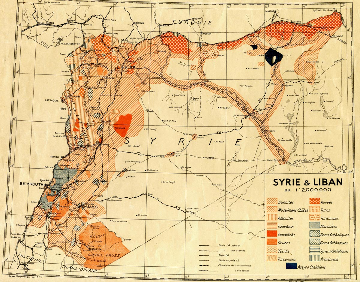 A map of religious and ethnic communities of Syria and Lebanon (1935). Scale 1: 200 000; Dimension: 73 × 67 cm.